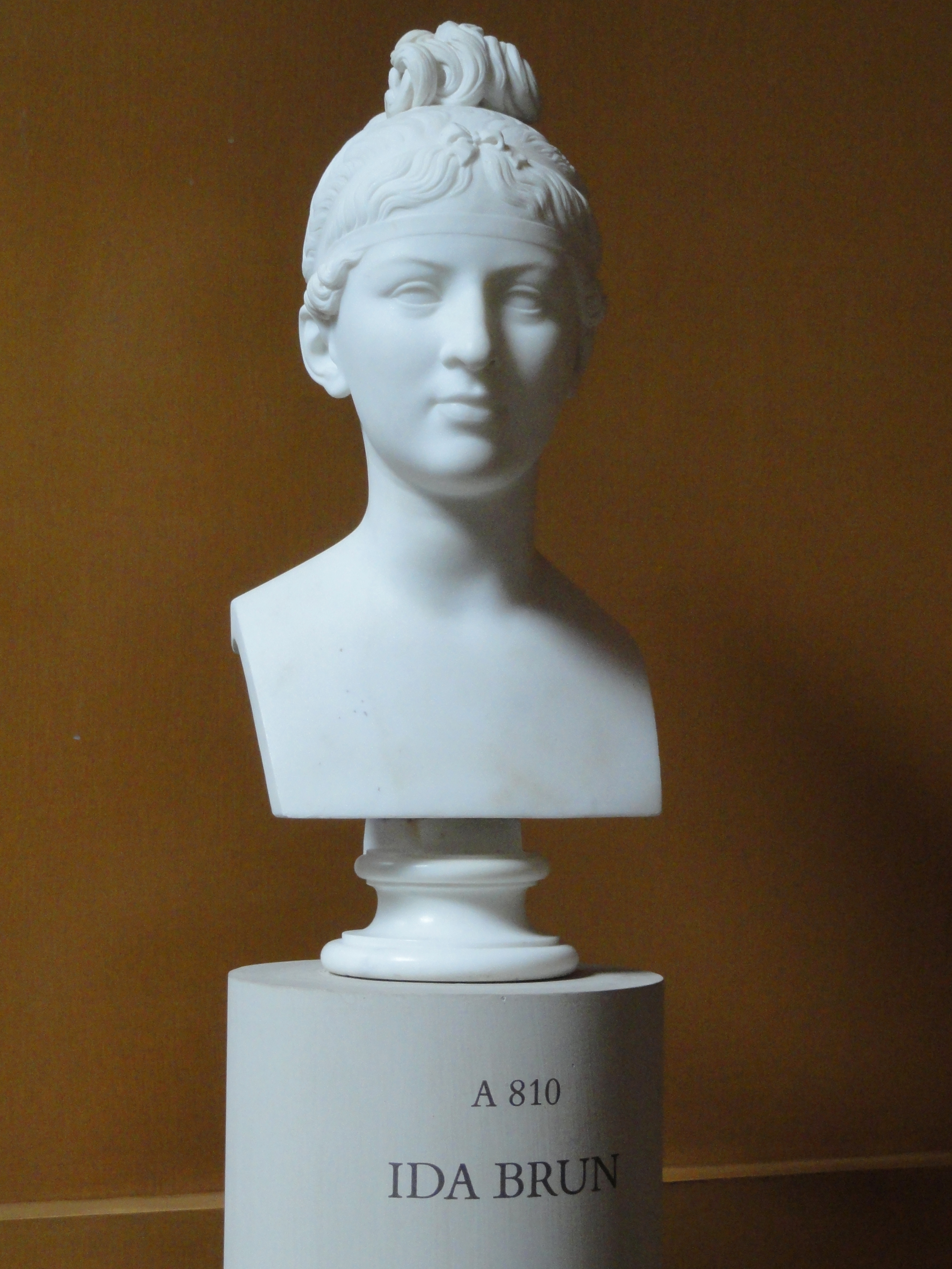 Sculpture in Thorvaldsens Museum, Copenhagen, Denmark. Sculptor: Bertel Thorvaldsen (c. 1770-1844). This artwork is now in the public domain because the artist died more than 70 years ago.